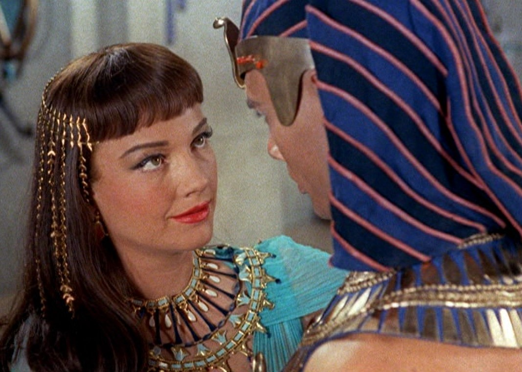 Cropped screenshot of Anne Baxter with Yul Brynner from the trailer for the film The Ten Commandments.